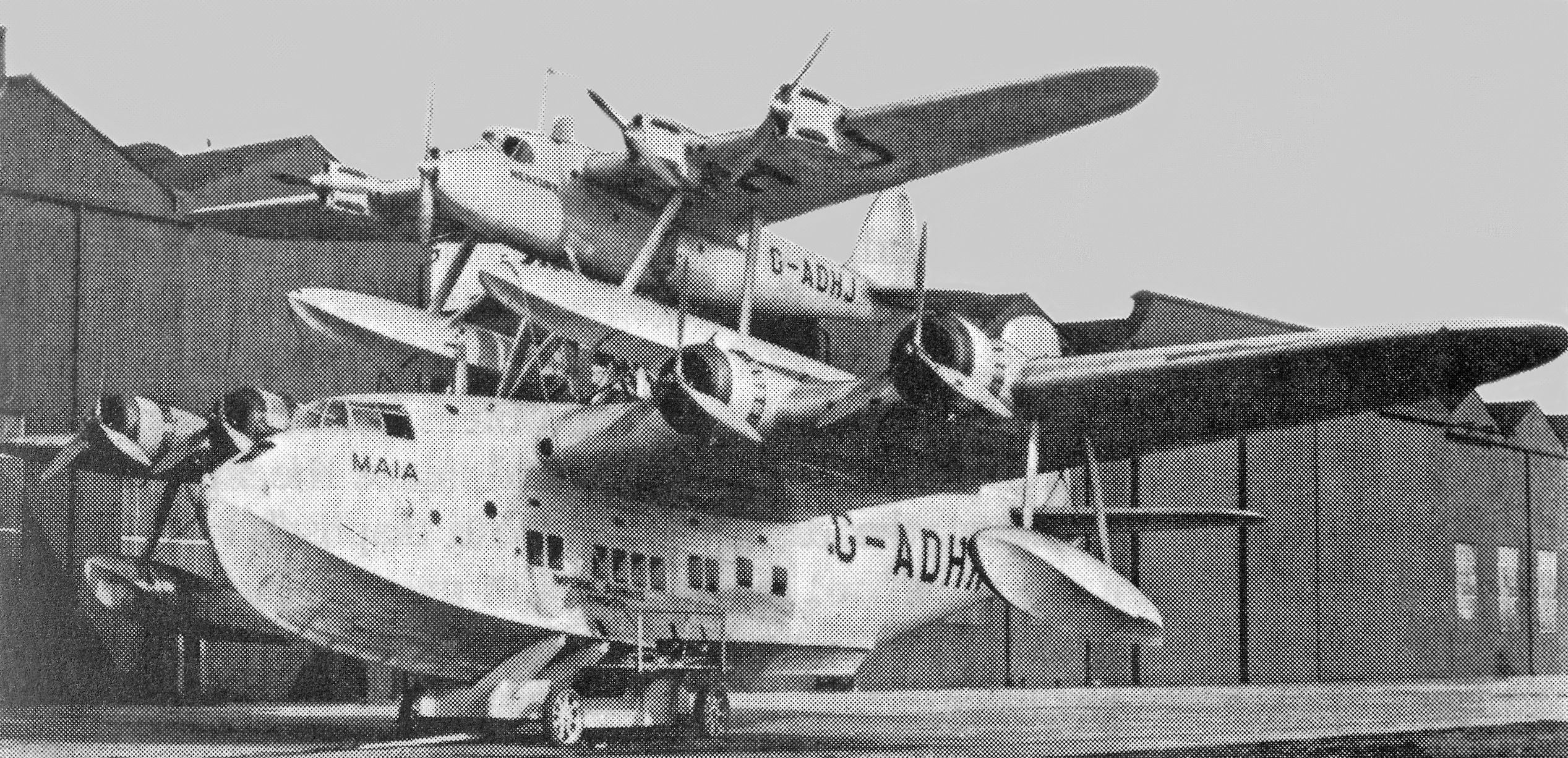 Short Mayo Composite, at Felixstowe, May 1938